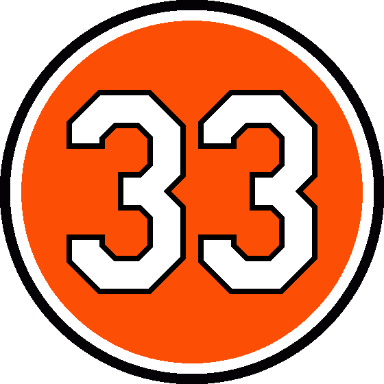 The number "33", retired for Eddie Murray by the Baltimore Orioles.